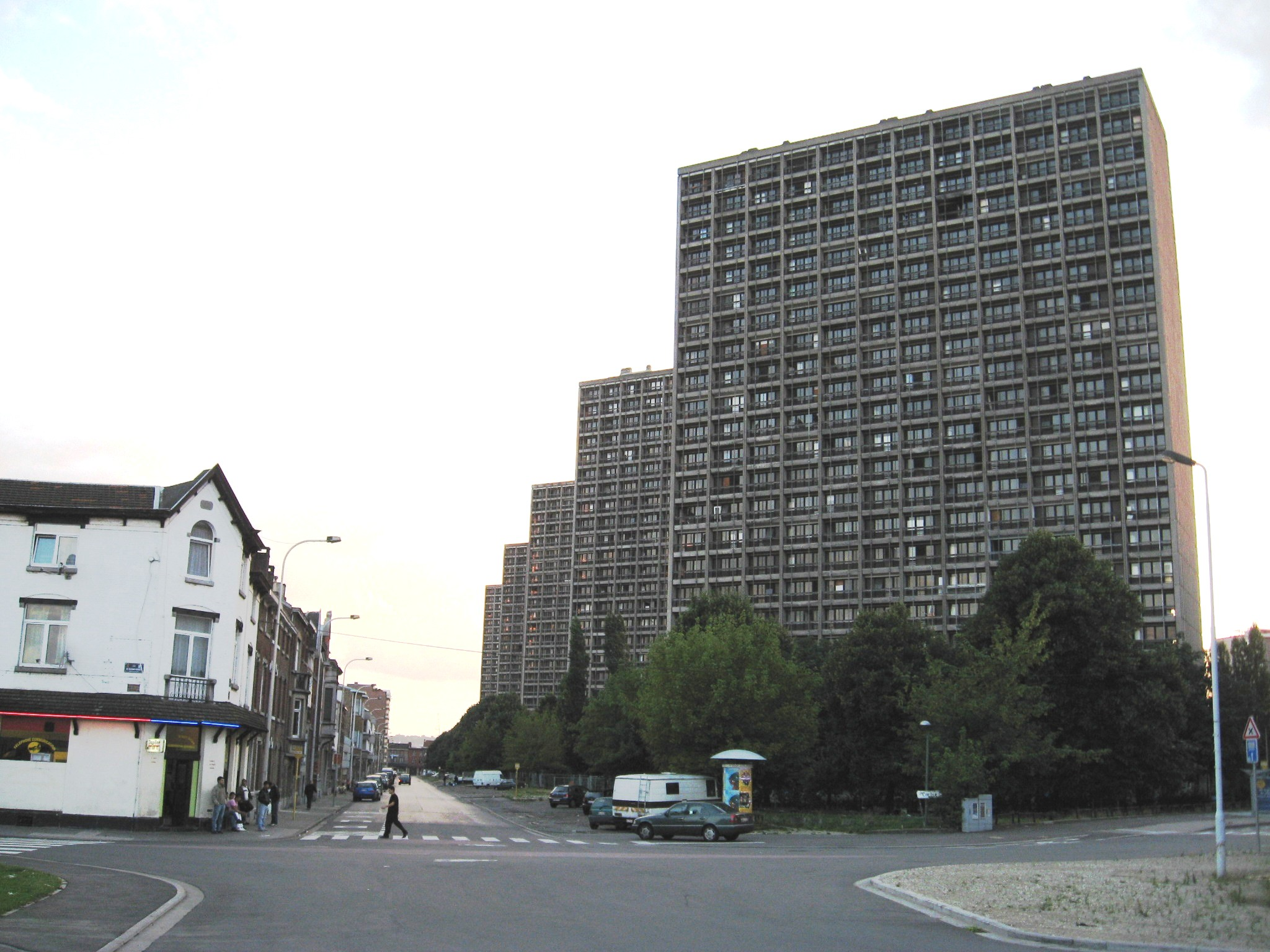 Buildings in Droixhe, Bressoux, Liège, Belgium